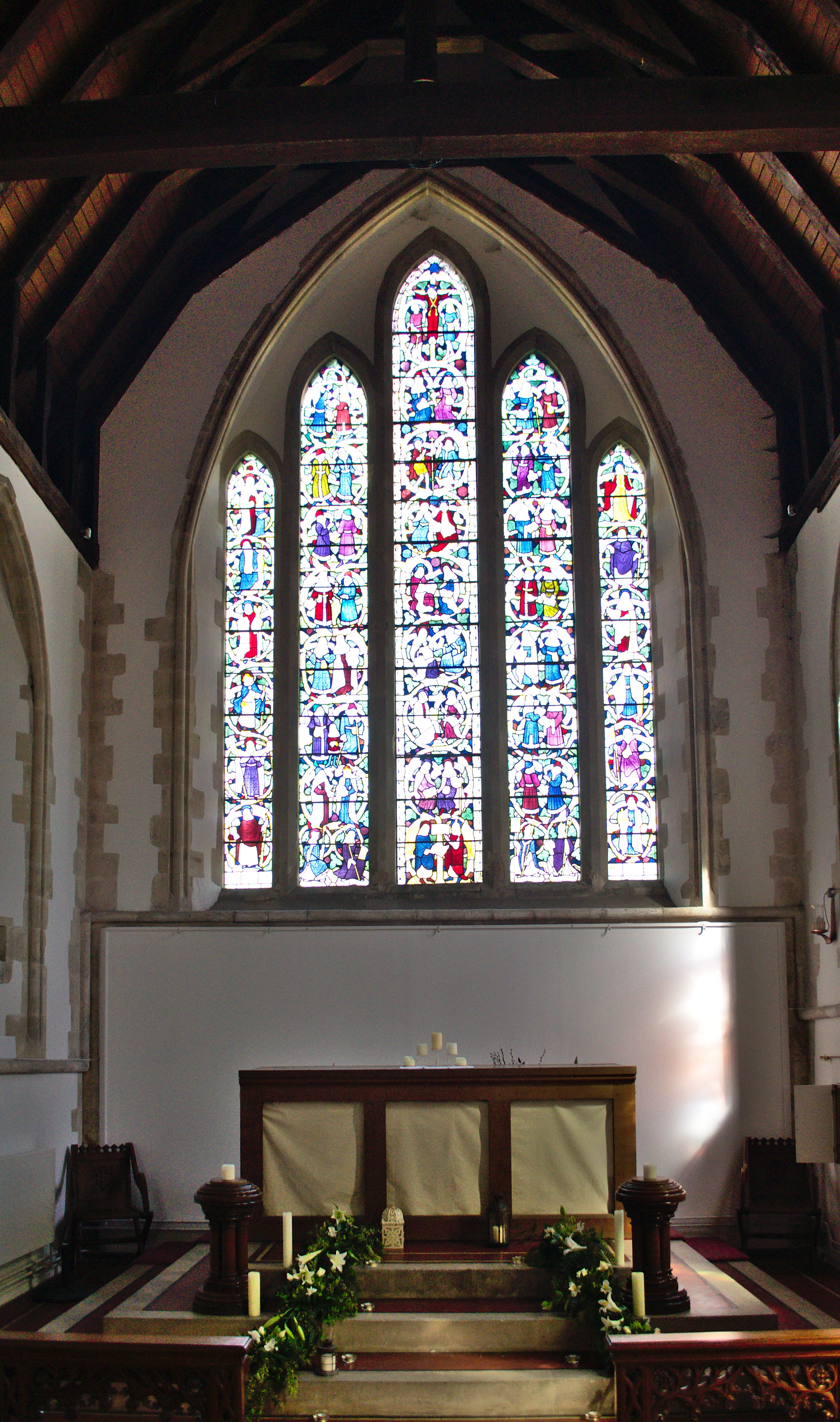 Inside the chancel of St Mary's parish church, South Hayling, Hampshire, looking east